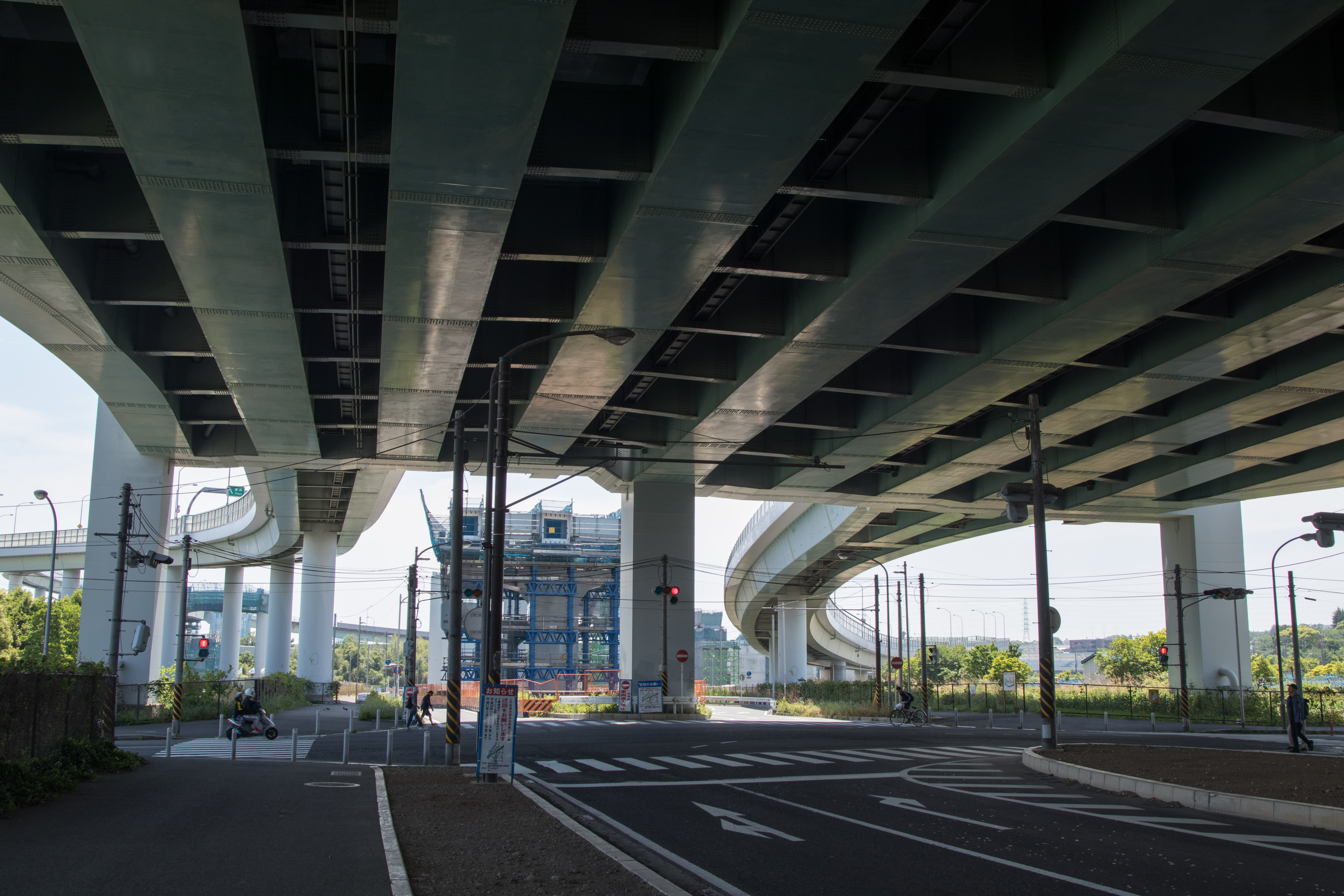 Yokohama-Aoba Junction under construction, Tōmei Expressway, Aoba Ward, Yokohama City, Kanagawa Prefecture, Japan